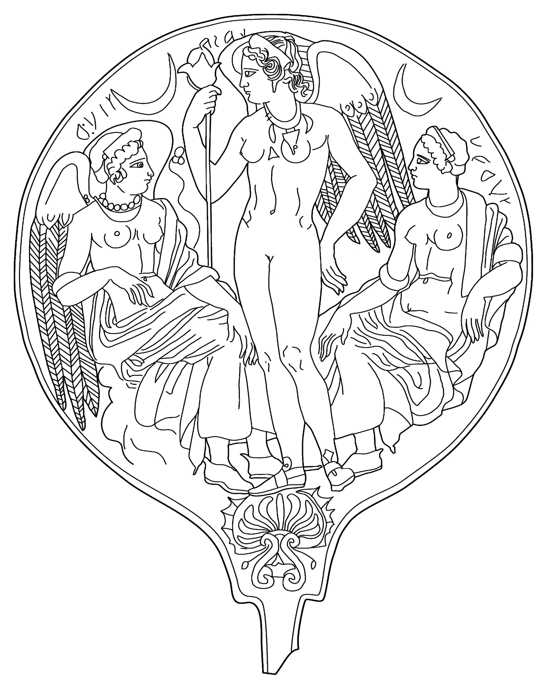 Etruscan mirror with Tiur, Lasa and Turan